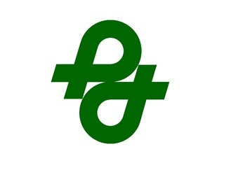 Flag of Nagakute Aichi